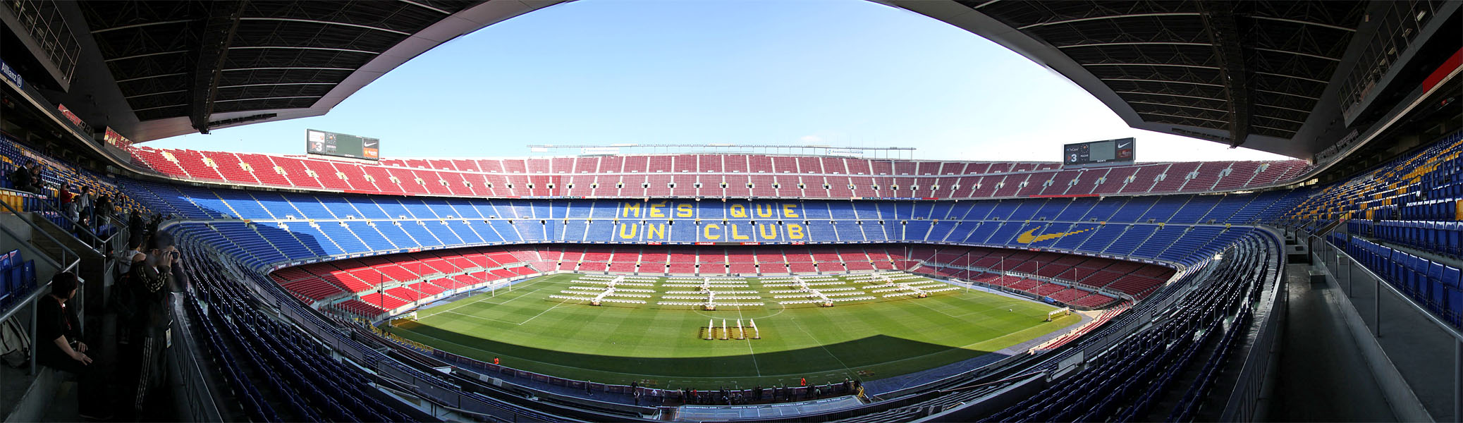 Panorama of Camp Nou